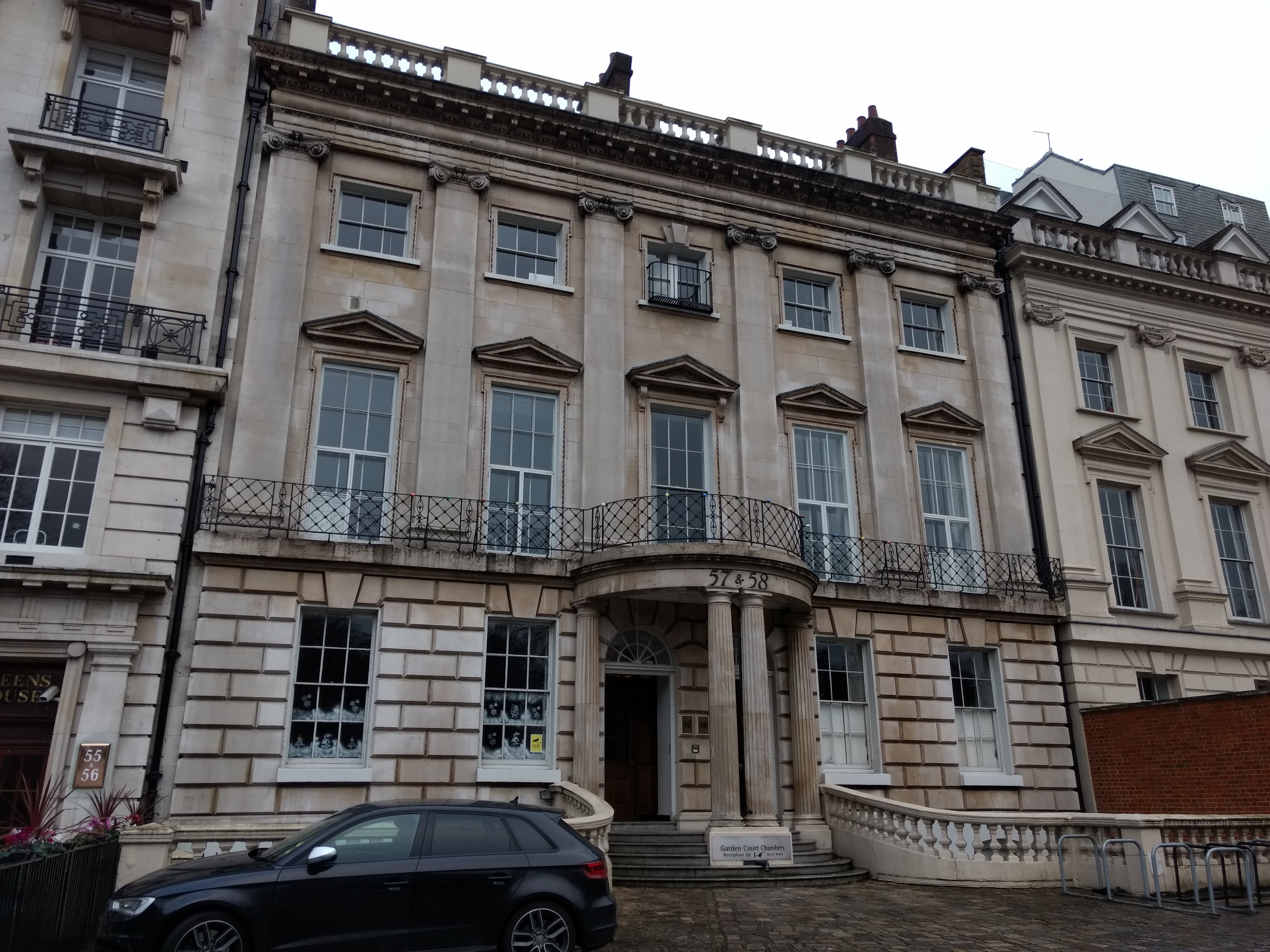 London